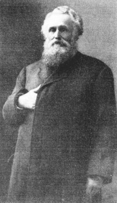 George Washington Glover, son of Mary Baker Eddy, founder of Christian Science